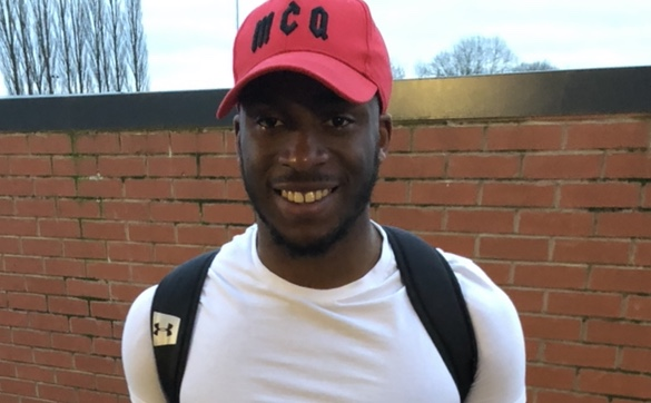 Photo taken by myself of Tolani Omotola following the Coalville Town Vs. Tamworth game on February 16 2019 at Owen Street Sports Ground.